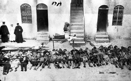 Greek Orthodox priest looks at his massacred flock. Photo from the archives of the German Deutsche Bank, which was working in the region financing a railway network when the killings began. Asia Minor, 1916